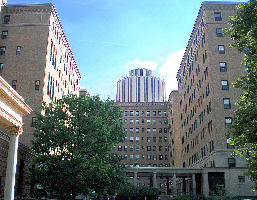 The Schenley Quadrangle of the University of Pittsburgh. photo by Michael G White